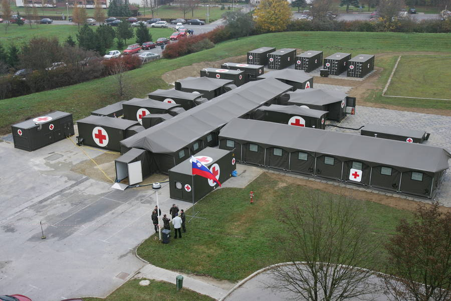 Slovenian field hospital Role-2